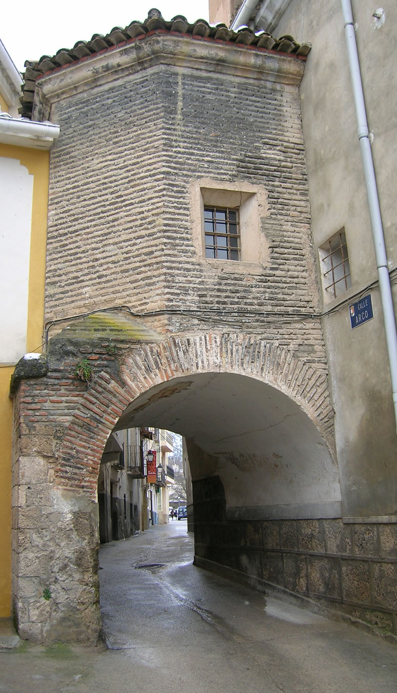 Nerpio, Albacete, Spain-España. Own work, given to PD.